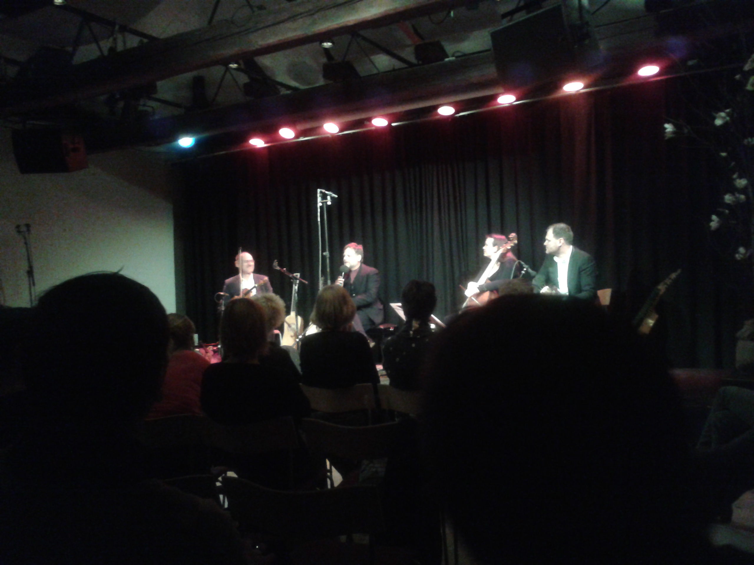 The Swedish folk music act Silfver live at Stallet, Stockholm